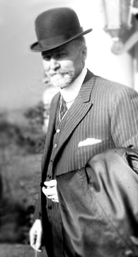 From the original: Dr. John B. Murphy standing in an entrance of Mercy Hospital and Medical Center. Theodore Roosevelt was taken to Mercy Hospital after being shot on October 14, 1912 before a campaign speech in Milwaukee, Wisconsin. Mercy Hospital was located at 2537 South Prairie Avenue in the Near South Side community area of Chicago.